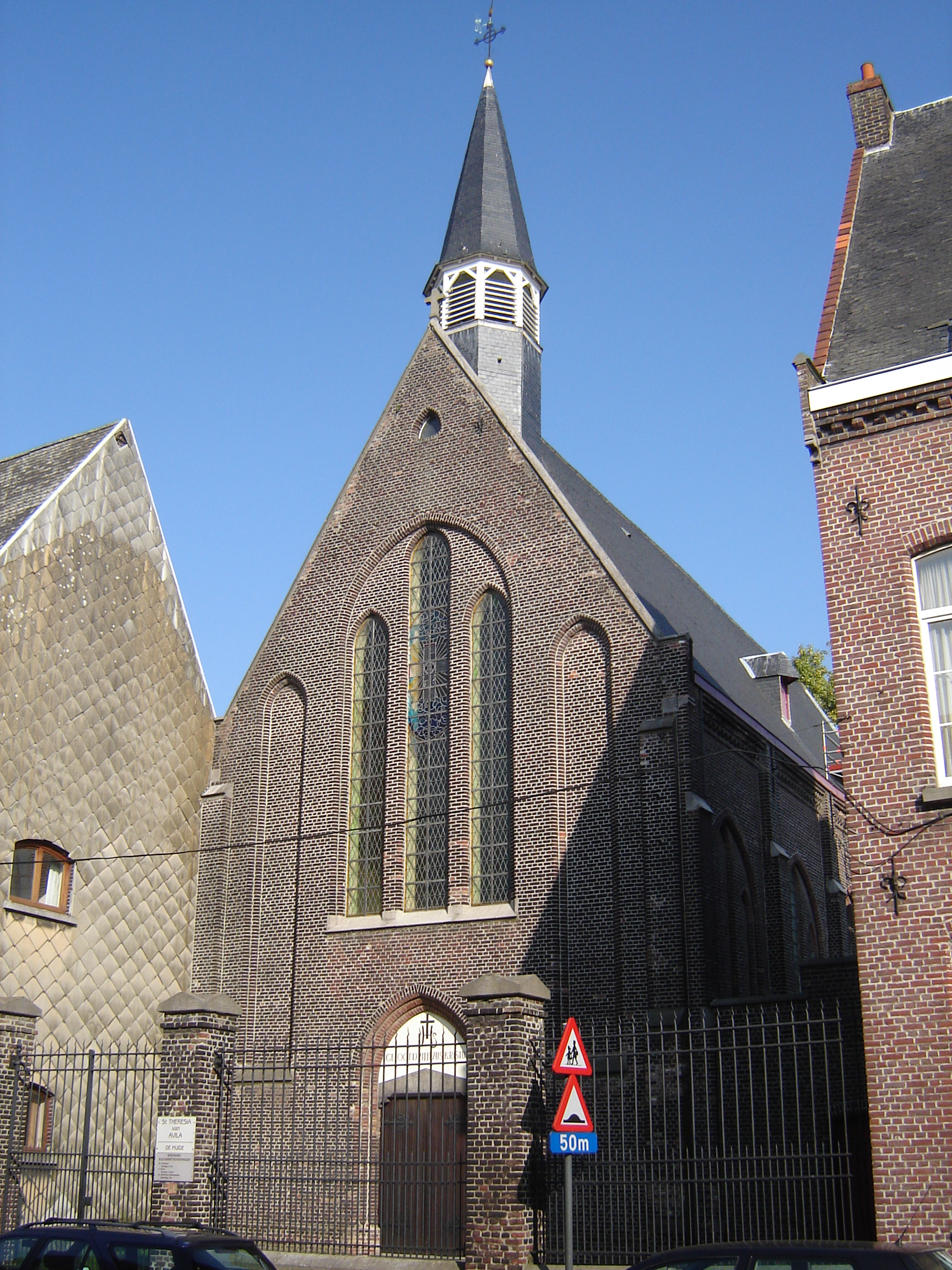 Church of Saint Teresa of Avila in the Muide quarter, Gent. Gent, East Flanders, Belgium.